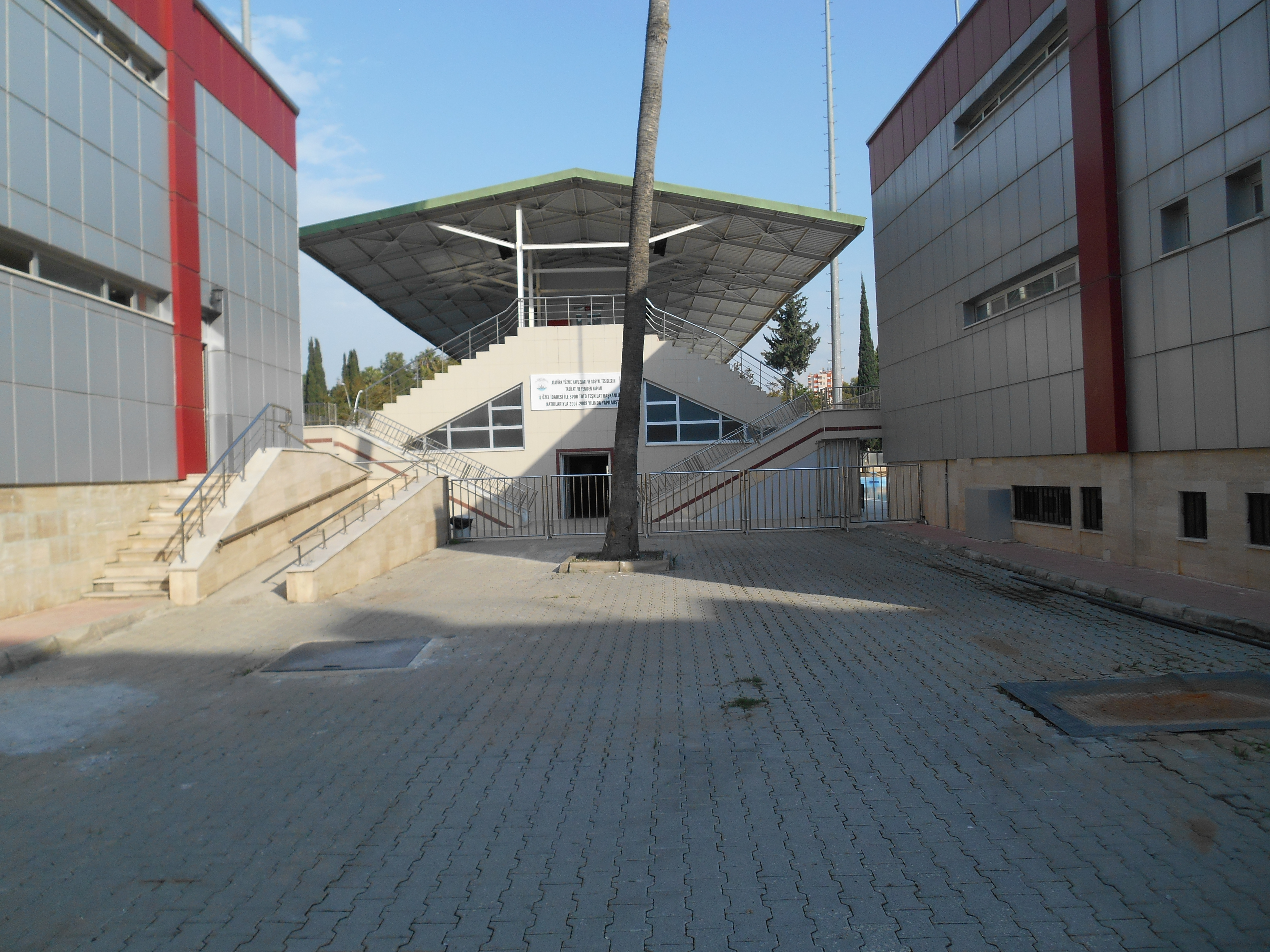 Entrance from the rear